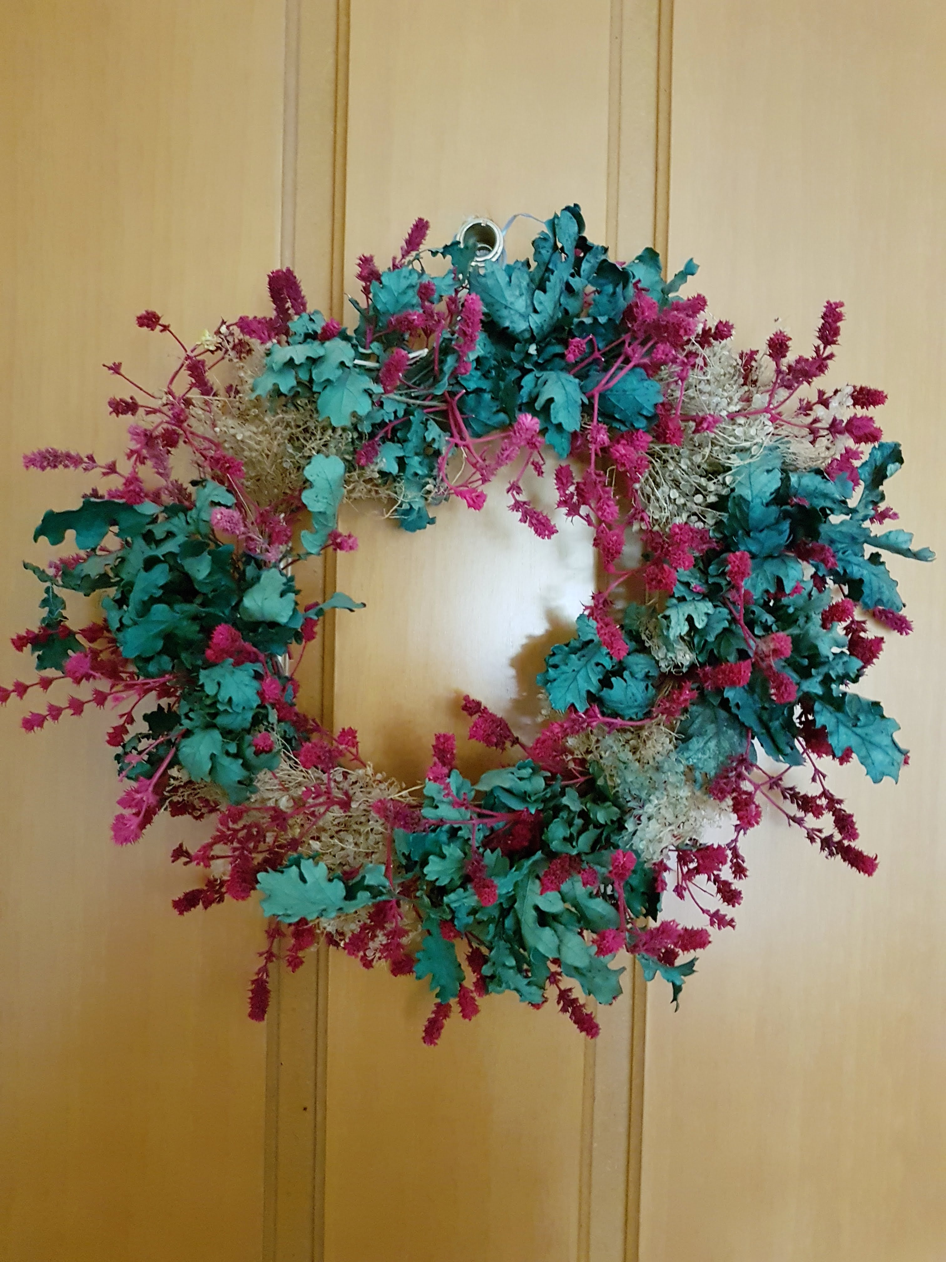 On May 1st, it is a tradition in Greece to collect flowers from out in the nature, wild ones manly,. People use to create hoops with from flowes and decorate their front door for good luck of happiness. Occasionally, the flowers are dried to keep the hoop longer